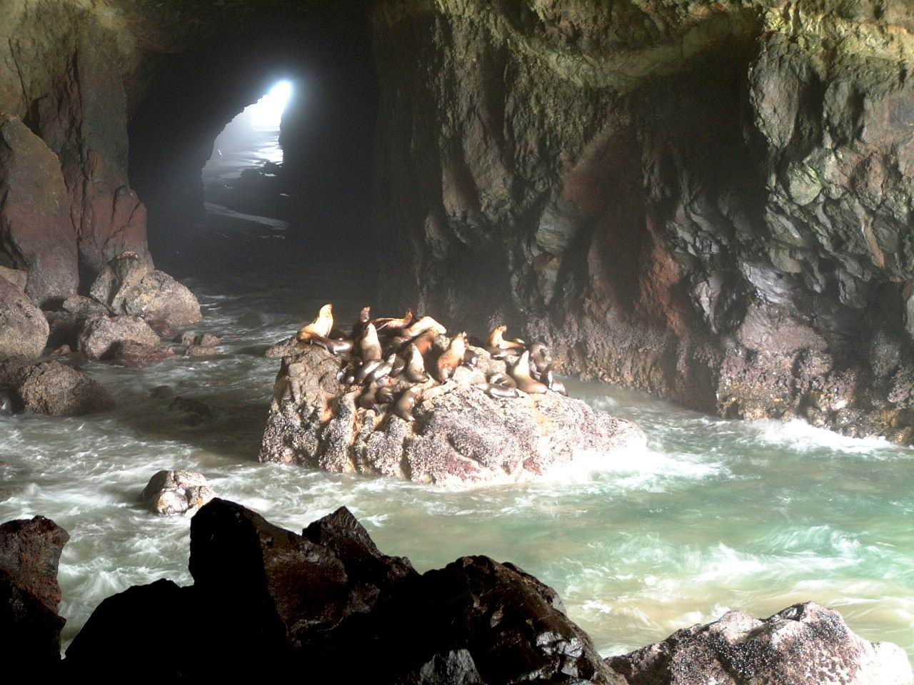 Sea Lion Cave near Yahachts, Oregon, USA.